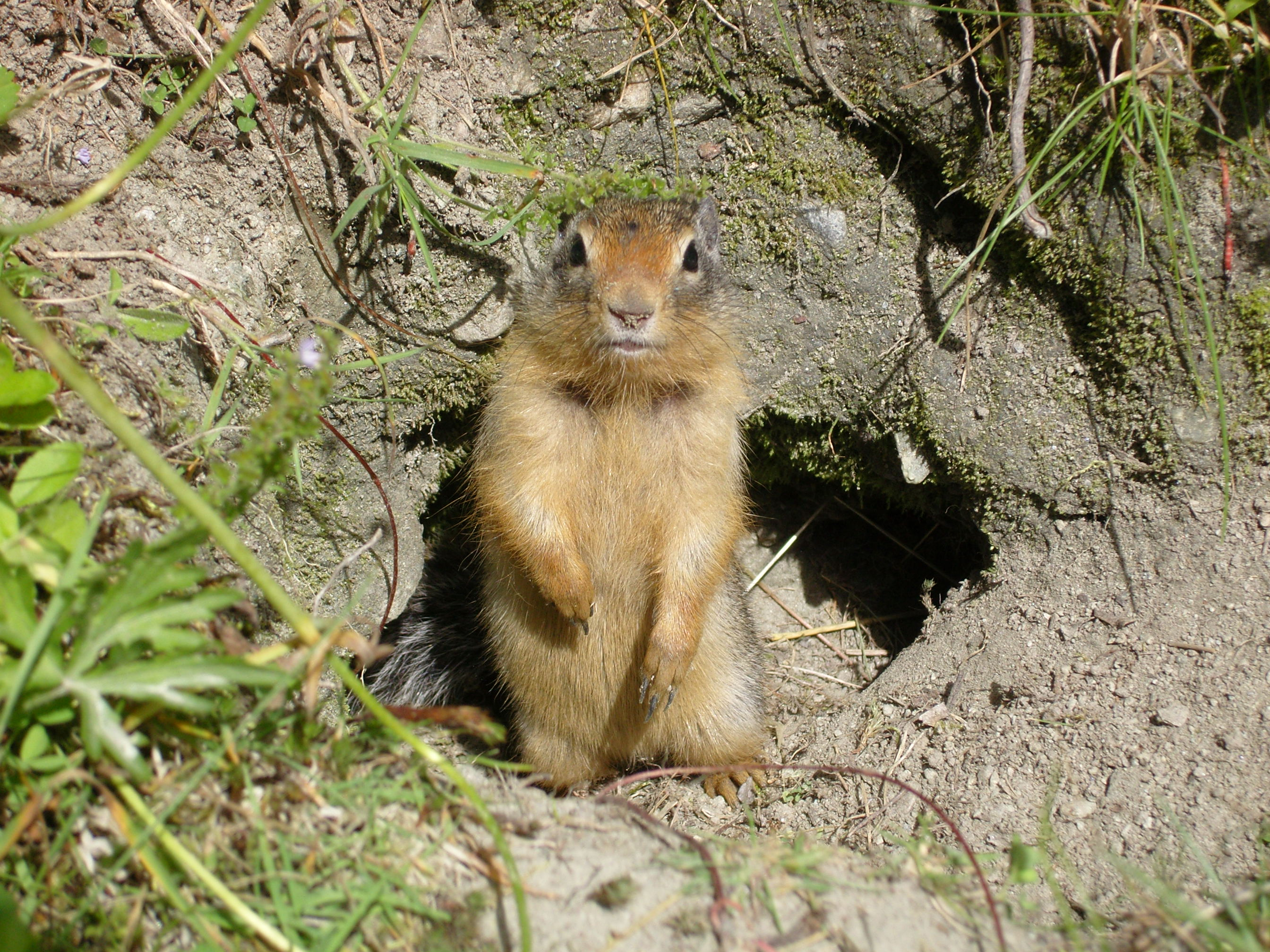 A photograph of a Columbian Ground Squirrel emerging from its burrow. Taken in Roger's Pass, Canada.